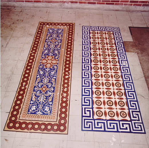 Detail of Minton encaustic tiles awaiting installation during a restoration of floors at the United States Capitol.